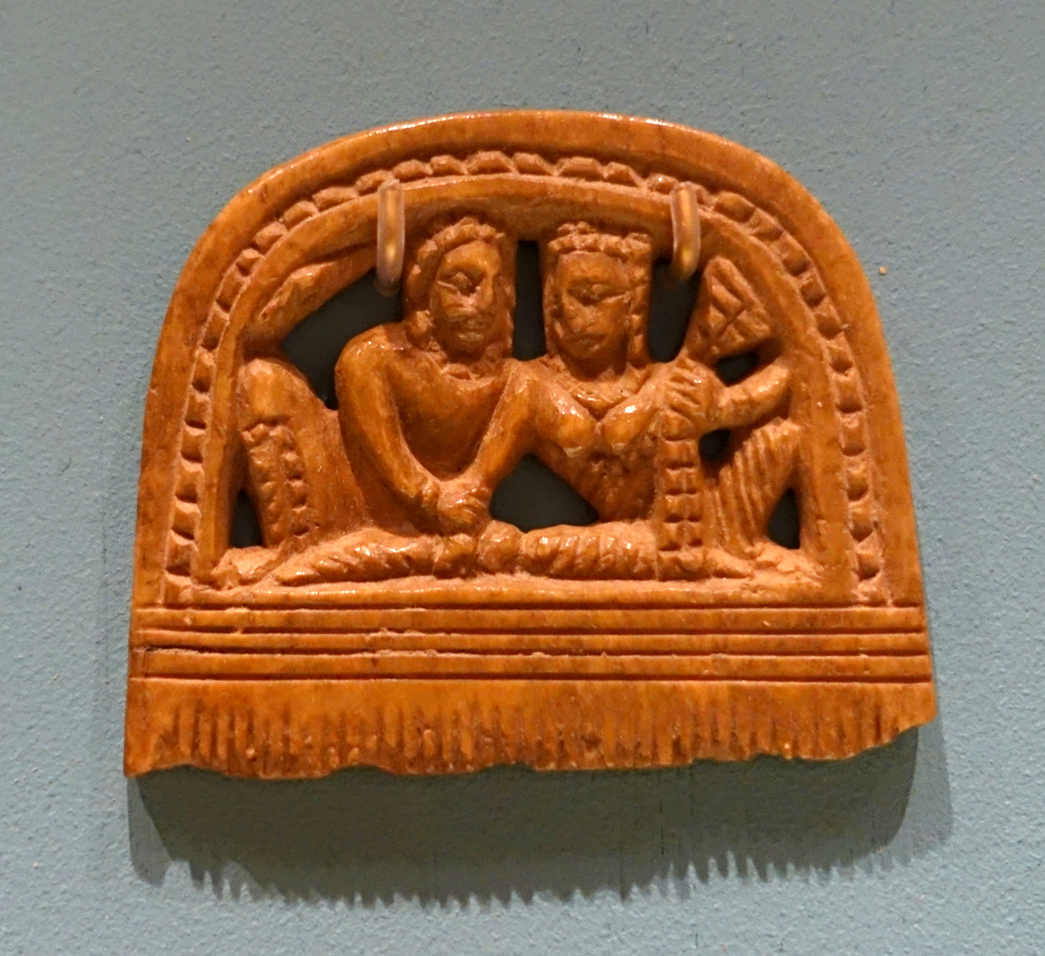 Exhibit in the Etnografiska museet, Stockholm, Sweden. Item 1903.11.0359, an antiquity obtained in the Sven Hedin expedition of 1893-1897. This work is old enough so that it is in the public domain.